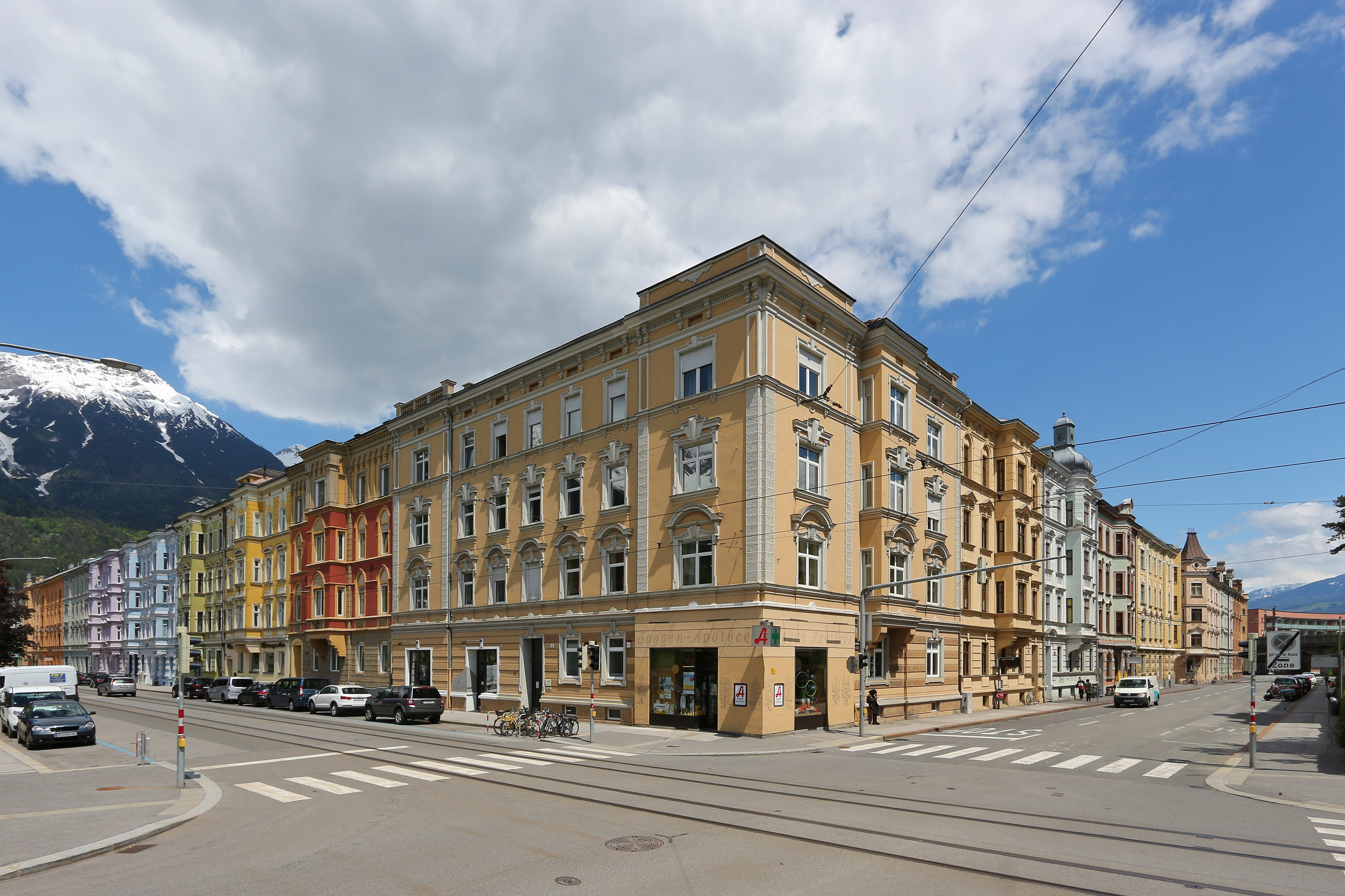 Claudiastraße Bienerstraße This media shows the remarkable cultural object in the Austrian state of Tyrol listed by the Tyrolean Art Cadastre with the ID 126293. (on tirisMaps, pdf, more images on Commons, Wikidata)